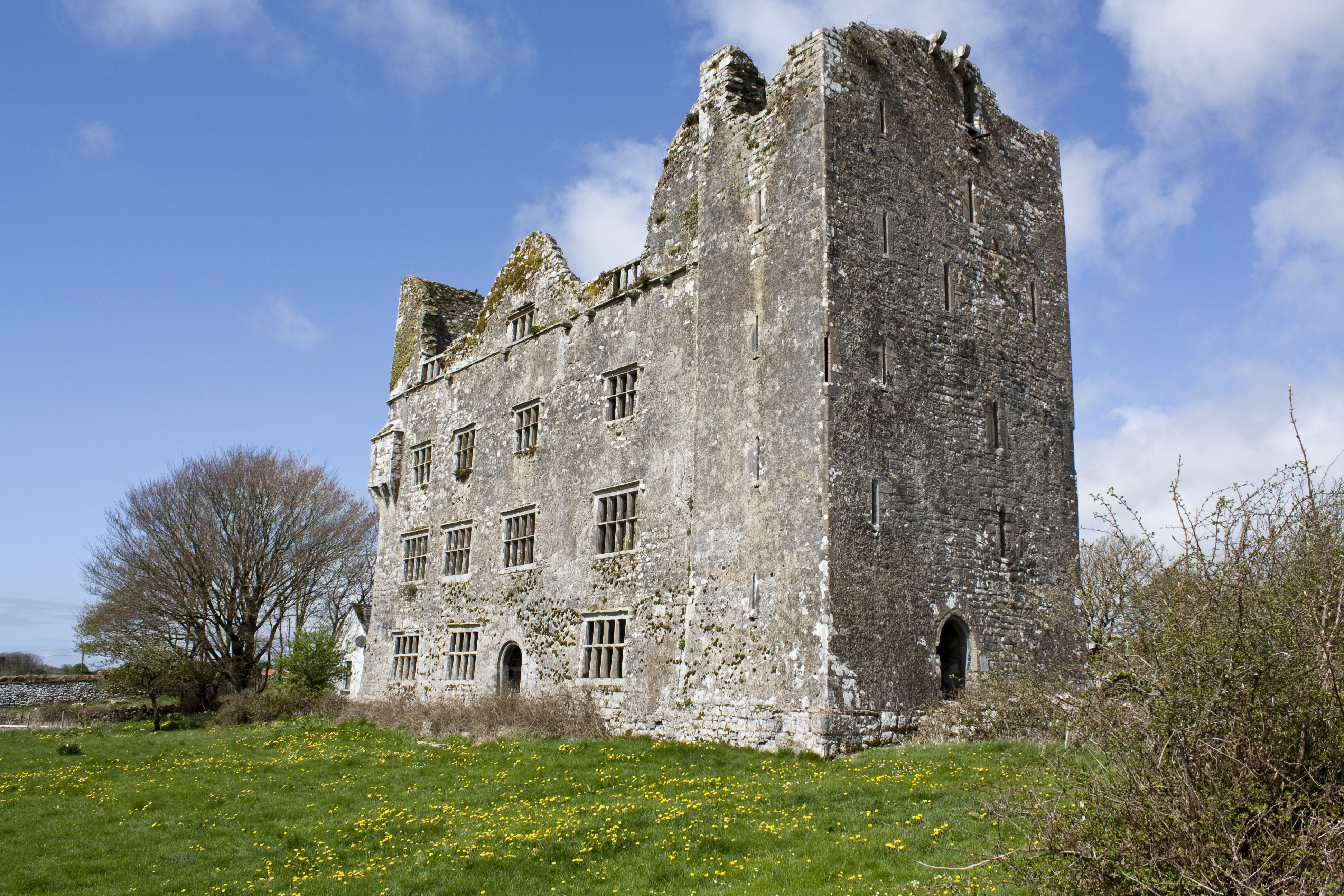 The ruin of Leamaneh Castle, County Clare, Ireland.